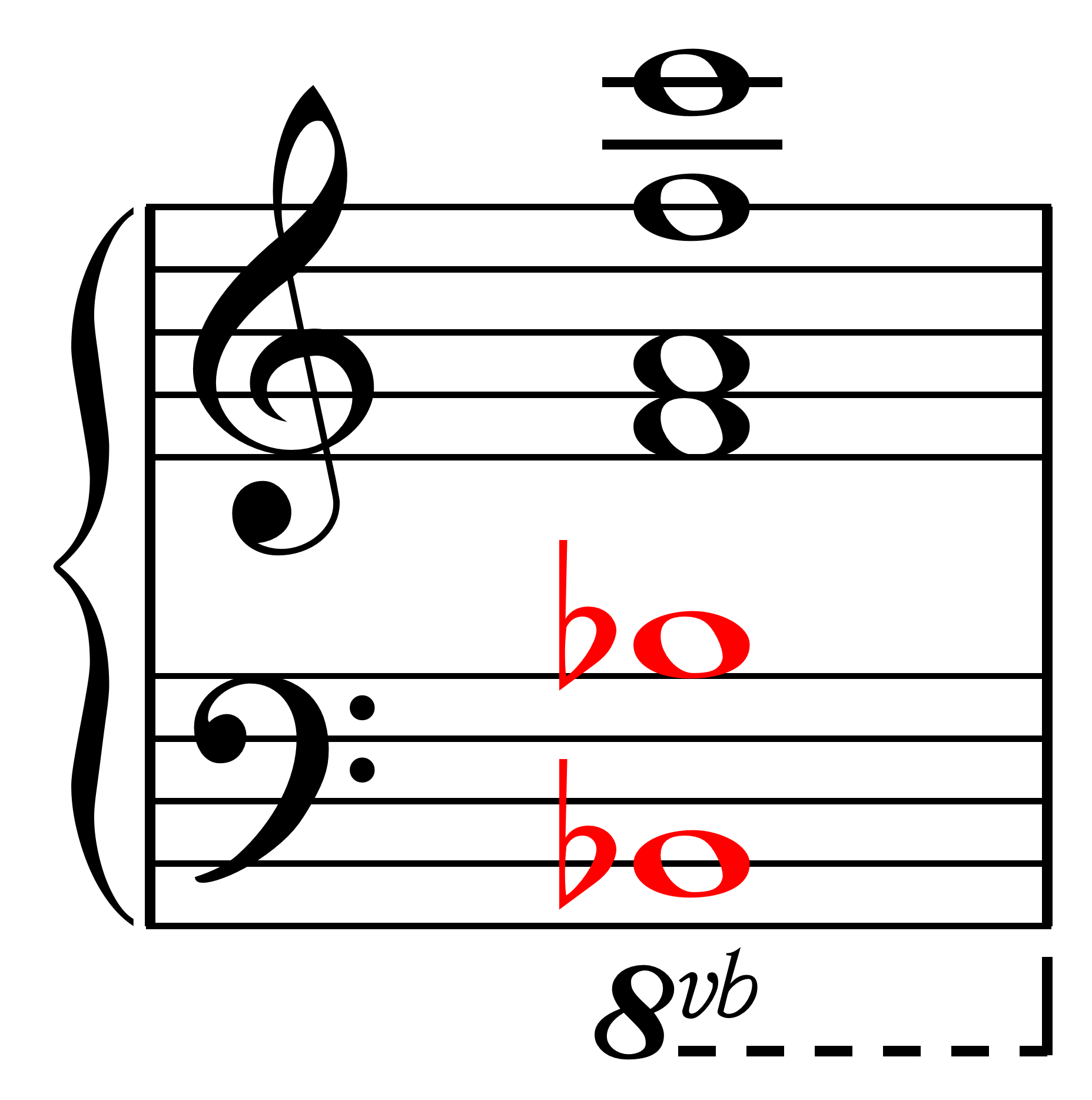 Pandiatonic chord with nonharmonic bass in Igor Stravinsky's Symphony of Psalms, 3rd movement.